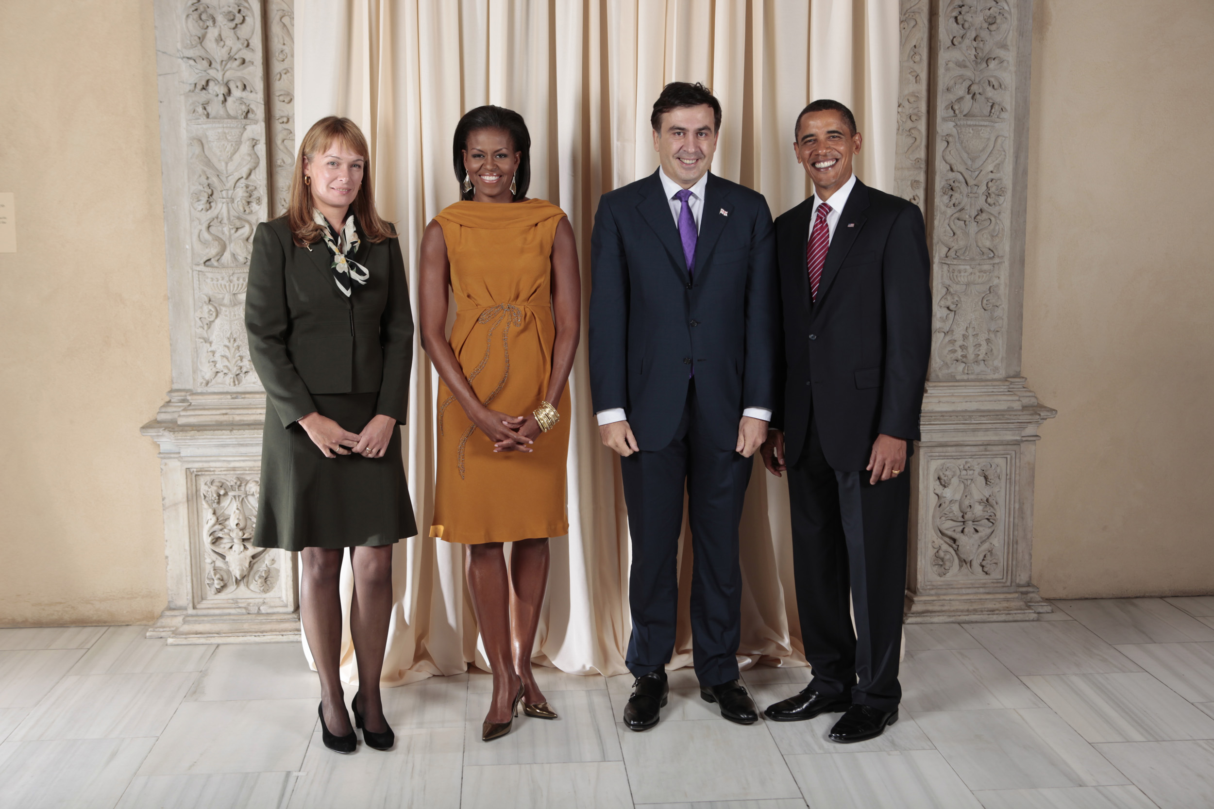 President Barack Obama and First Lady Michelle Obama pose for a photo during a reception at the Metropolitan Museum in New York with Mikheil Saakashvili, President of Georgia, and his wife, First Lady of Georgia Sandra Elisabeth Roelofs.